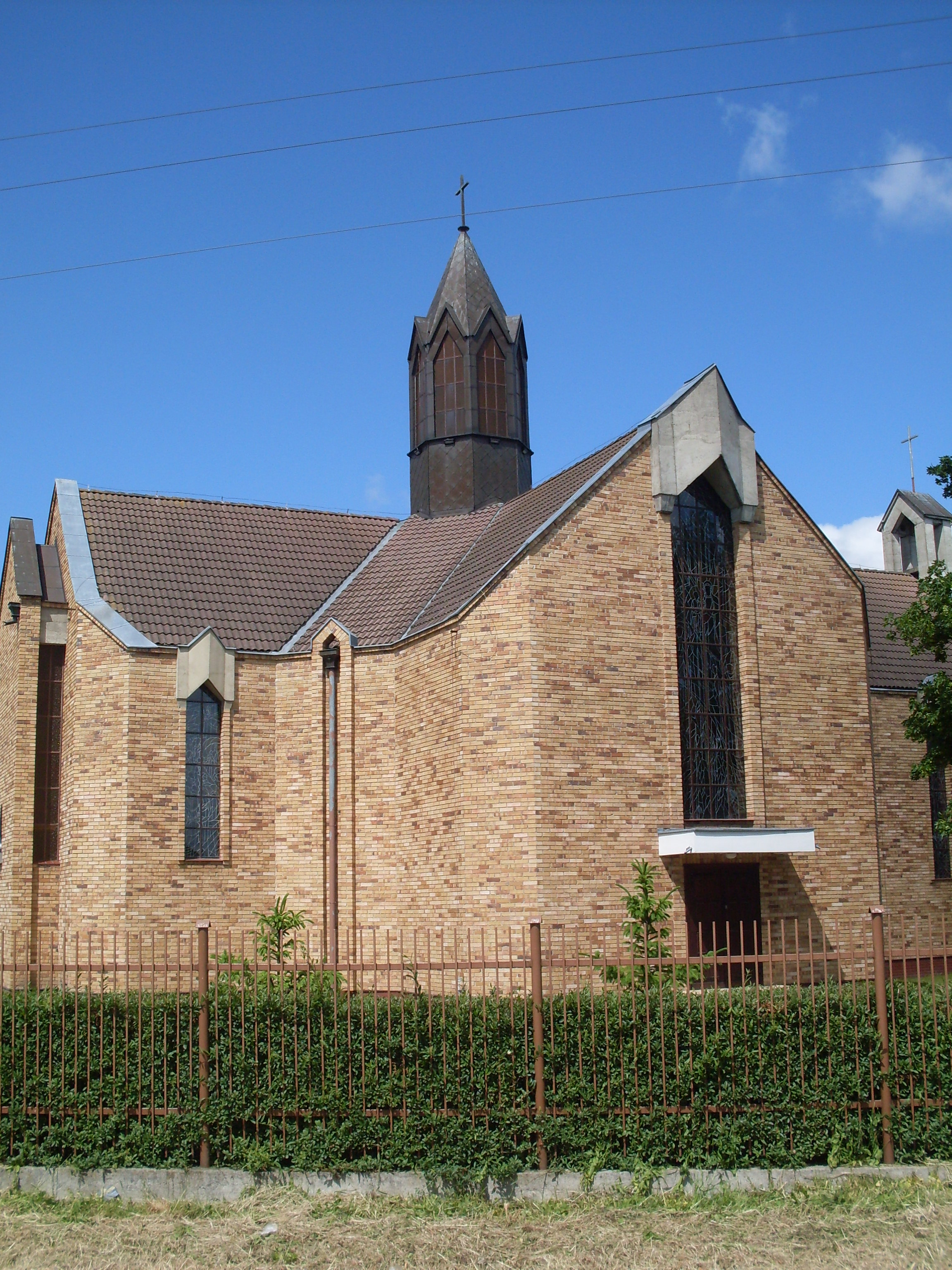 Church, Przecław, Police County